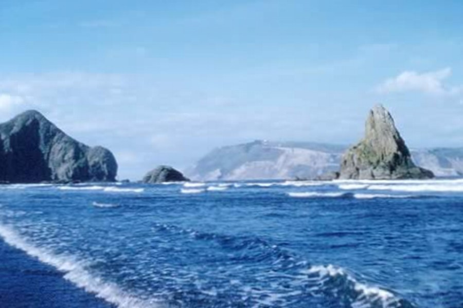 The harbour heads of Manukau Harbour, New Zealand in 1960. Standing on the black sands looking south. In the foreground left is the North Head (called 'Burnett Head' or 'Ohaka Head' due to the existence of North Head on the Waitemata Harbour), while the distant cliffs are the South Head of the Manukau Harbour.